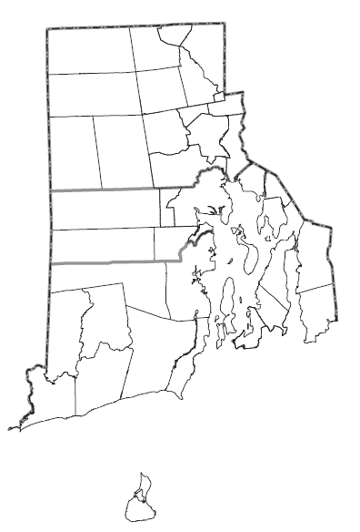 Map of the municipalities of the U.S. state of Rhode Island, with the city of Central Falls highlighted in red.